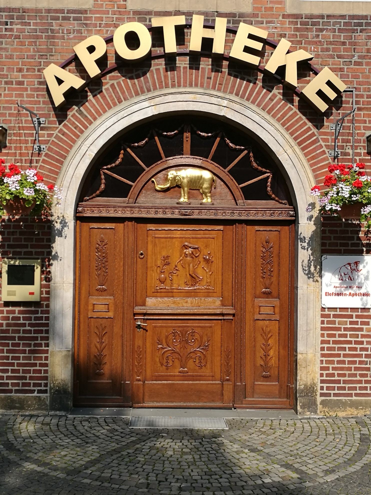 historical door drugstore